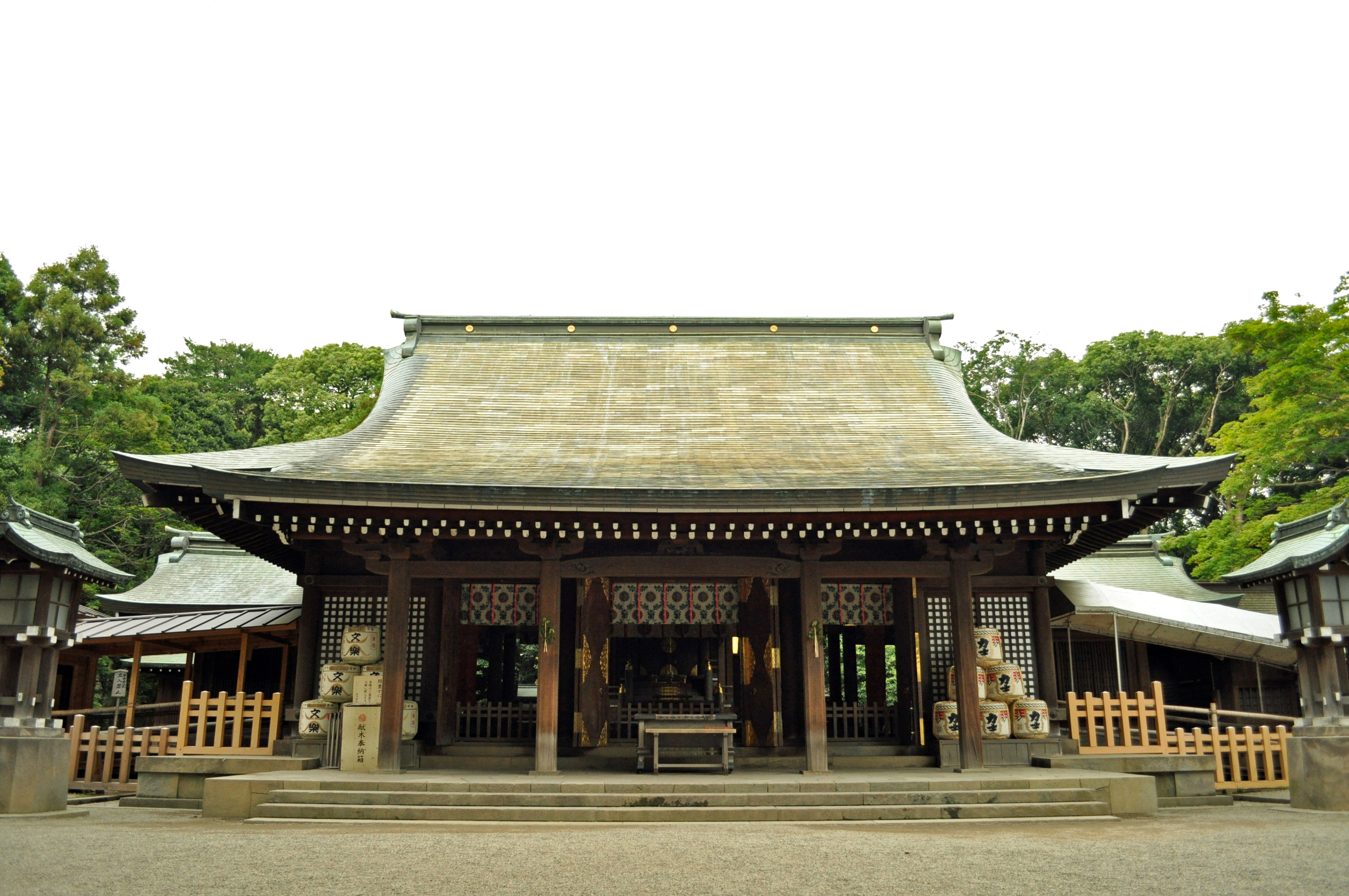 front shrine of the Hikawa shrine